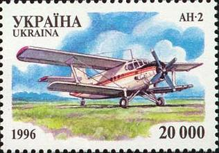 Stamp of Ukraine